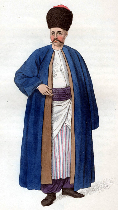 Painting of an Armenian in the Ottoman Empire, 1779.